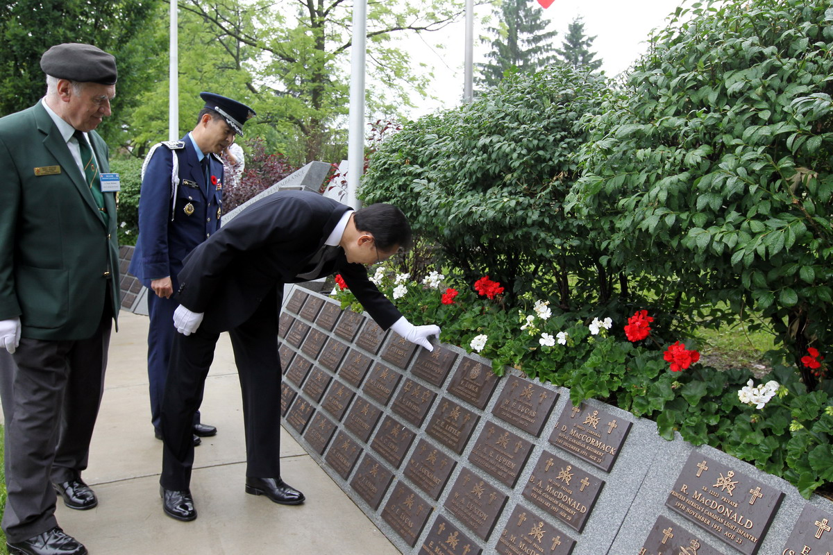 President Lee Myung-bak visits the Meadowvale Cemetery in Brampton near Toronto on Saturday (Jun. 26) to pay tribute to the Canadian soldiers who gave their lives during the Korean War.